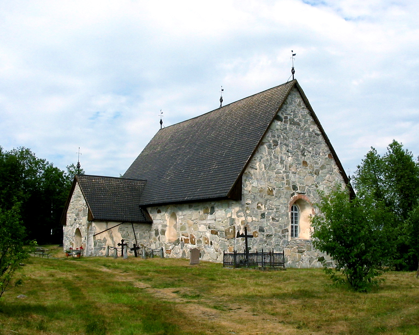 Medieval greystone church in Keminmaa (near the city Kemi) in Finland.